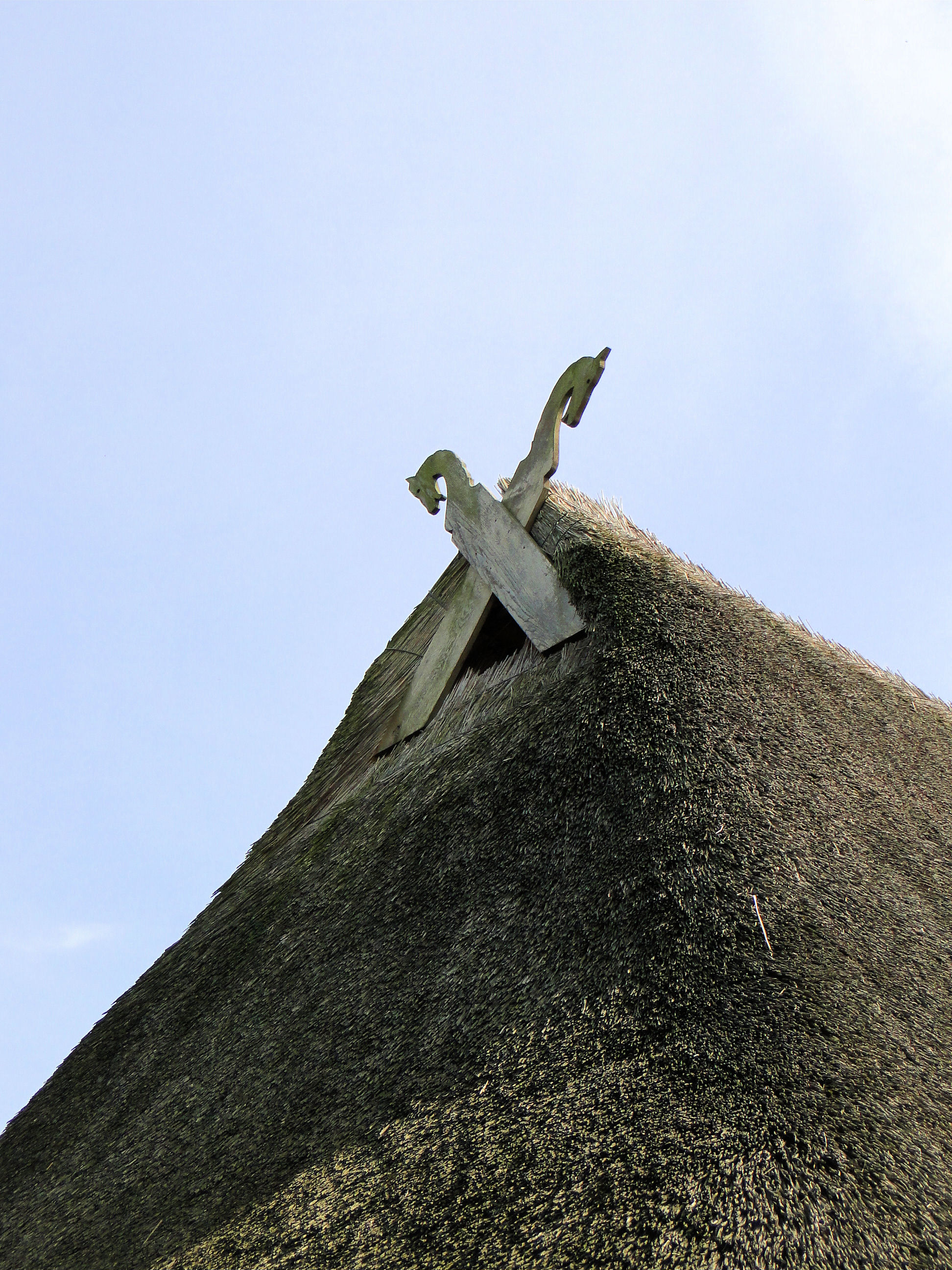 Horse heads as gable cross in Dobbertin, district Parchim, Mecklenburg-Vorpommern, Germany